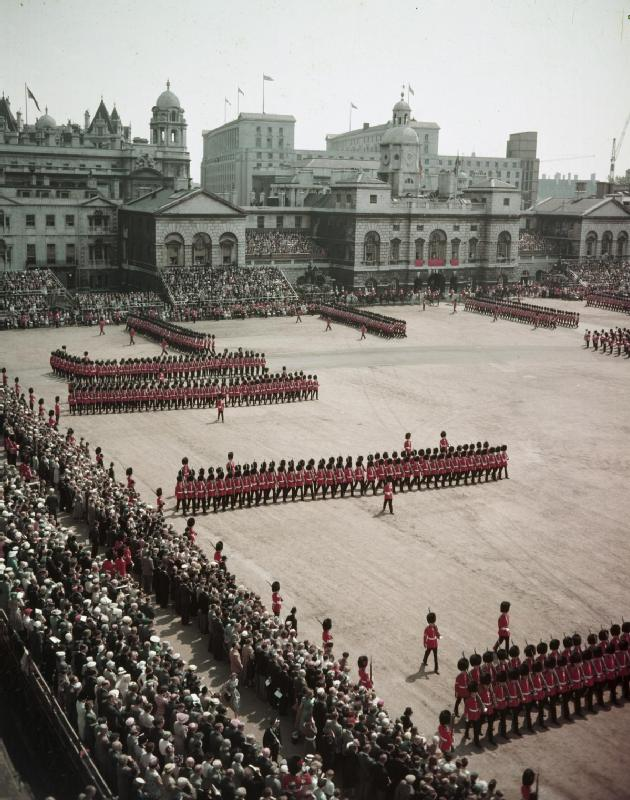 The Trooping the Colour ceremony, at Horse Guards Parade, June 1956. The Grenadier Guards troop their Colour.